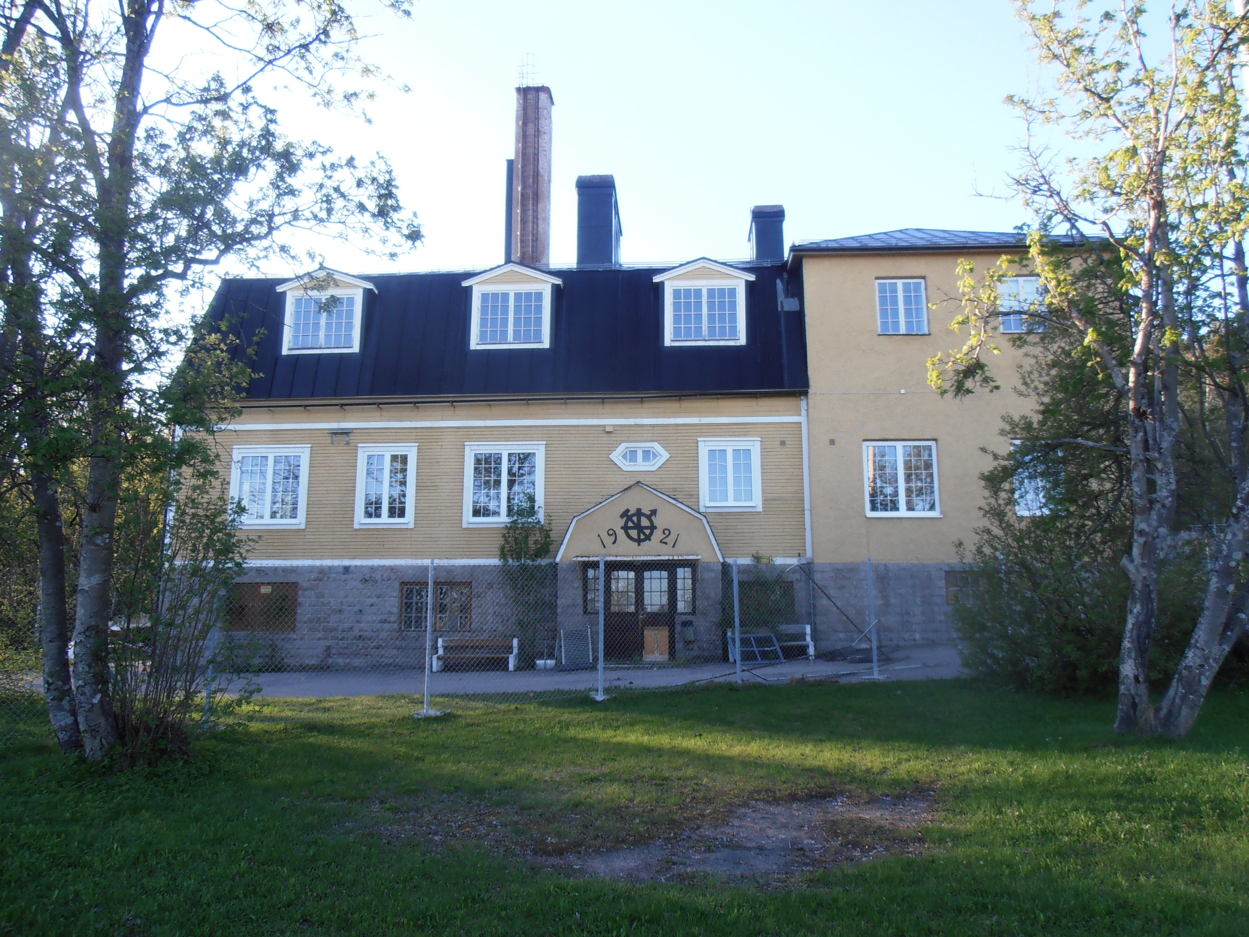 The mining museum at Puoitak road 12 in Malmberget